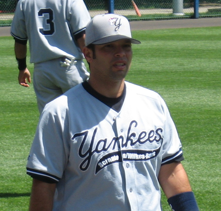 Scranton Wilkes Barre Yankees catcher Raul Chavez 08:12, 26 July 2007 . . Haltrosky . . 897×857 (172 KB)